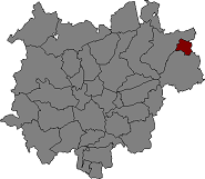 Location of l'Estany in Bages